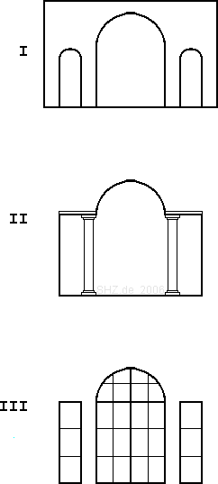 'venetian window', also known as 'Palladio motif' Roman triumphal arch Renaissance Palladio motif since 19th century